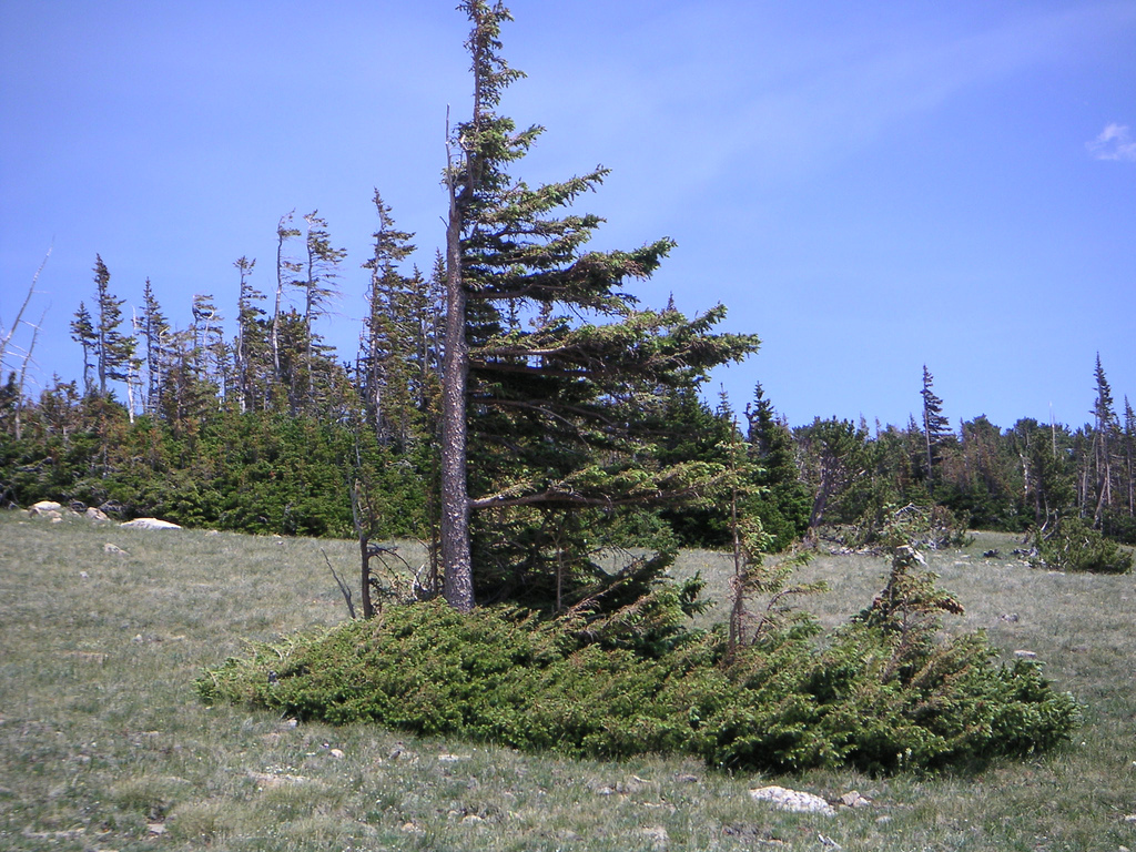 Windswept trees (Picea engelmannii) somewhere in Colorado – Right at the tree line, the trees that still manage to live there are pretty wind blown.